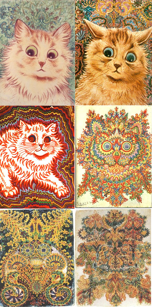 6 paintings of cats by Louis Wain with an increasing degree of abstractecness, attributed by some to his suffering from schizophrenia